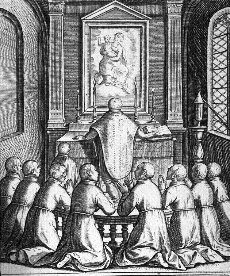 The first vows of the first companions of the Society of Jesus at Montmartre (1534-8-15).